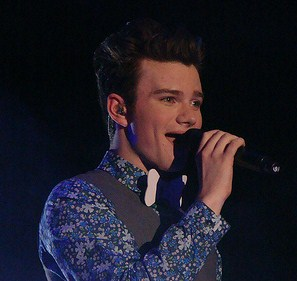 Chris Colfer performing "I Wanna Hold Your Hand"